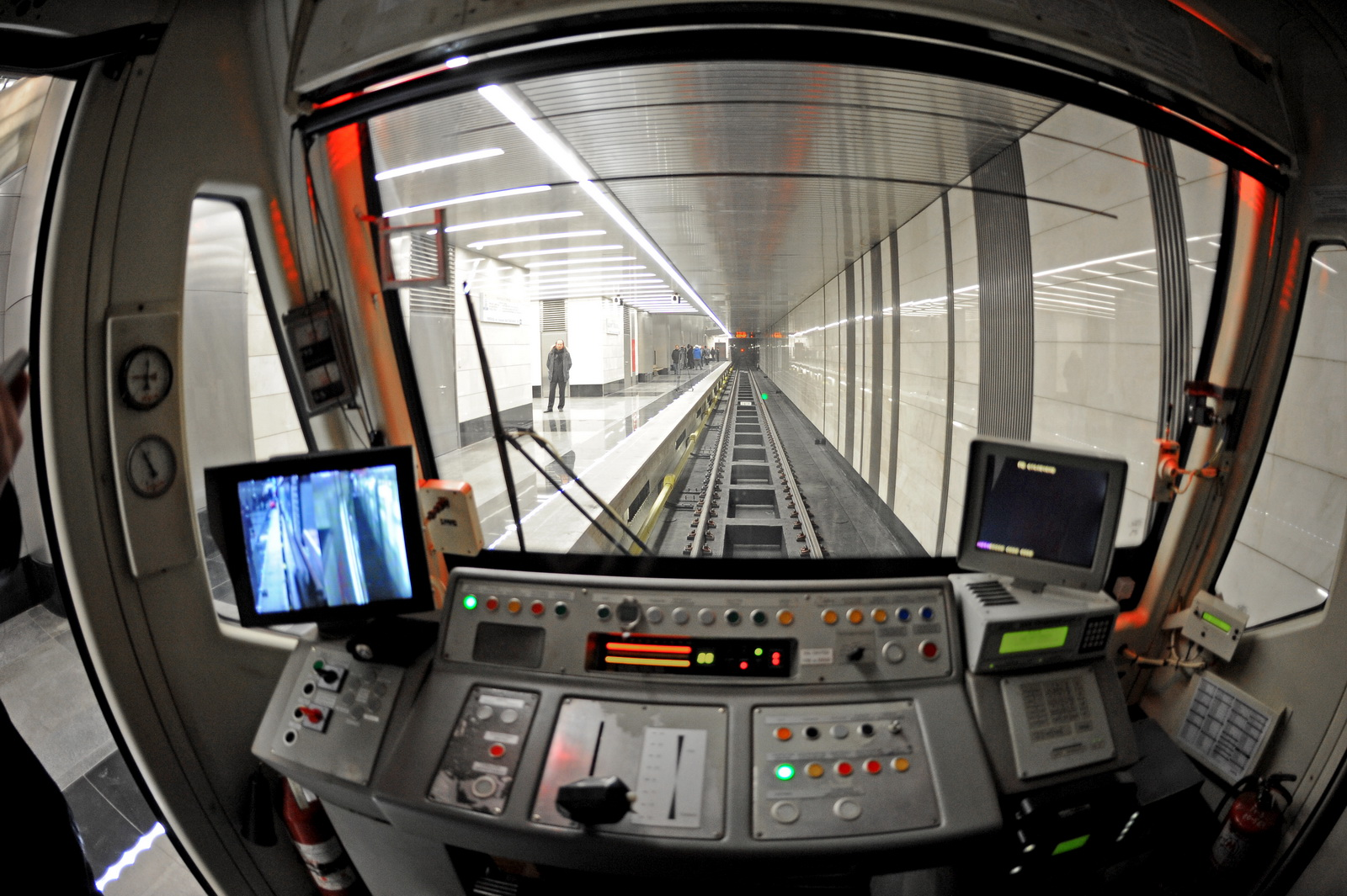 A control panel in driving cab of electric metro train 81-740 «Rusich»